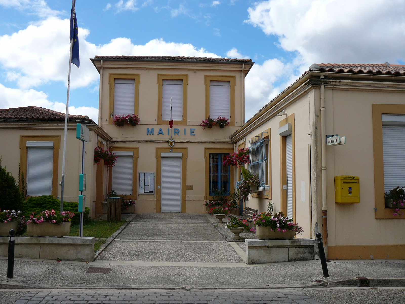 Town hall in Saint-Agnant. Charente-Maritime (17), Poitou-Charentes, France, Europe.